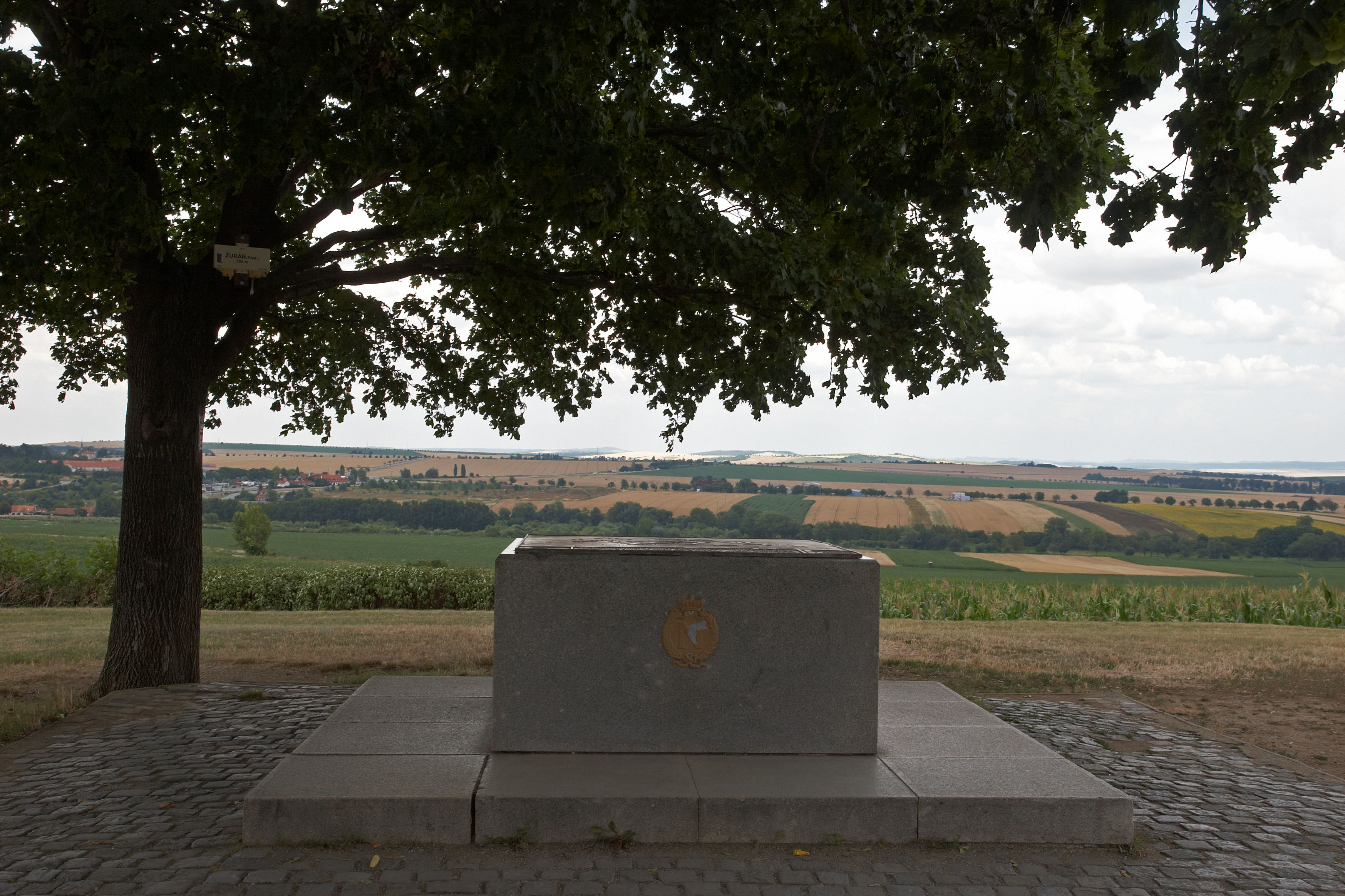 Žuráň - the summit of the hill with a map of the battlefield (Battle of Austerlitz)